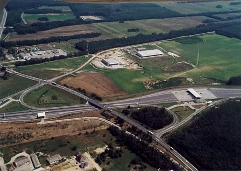 Újhartyán, Toll collecting gate, Hungary, aerialphotgraphy